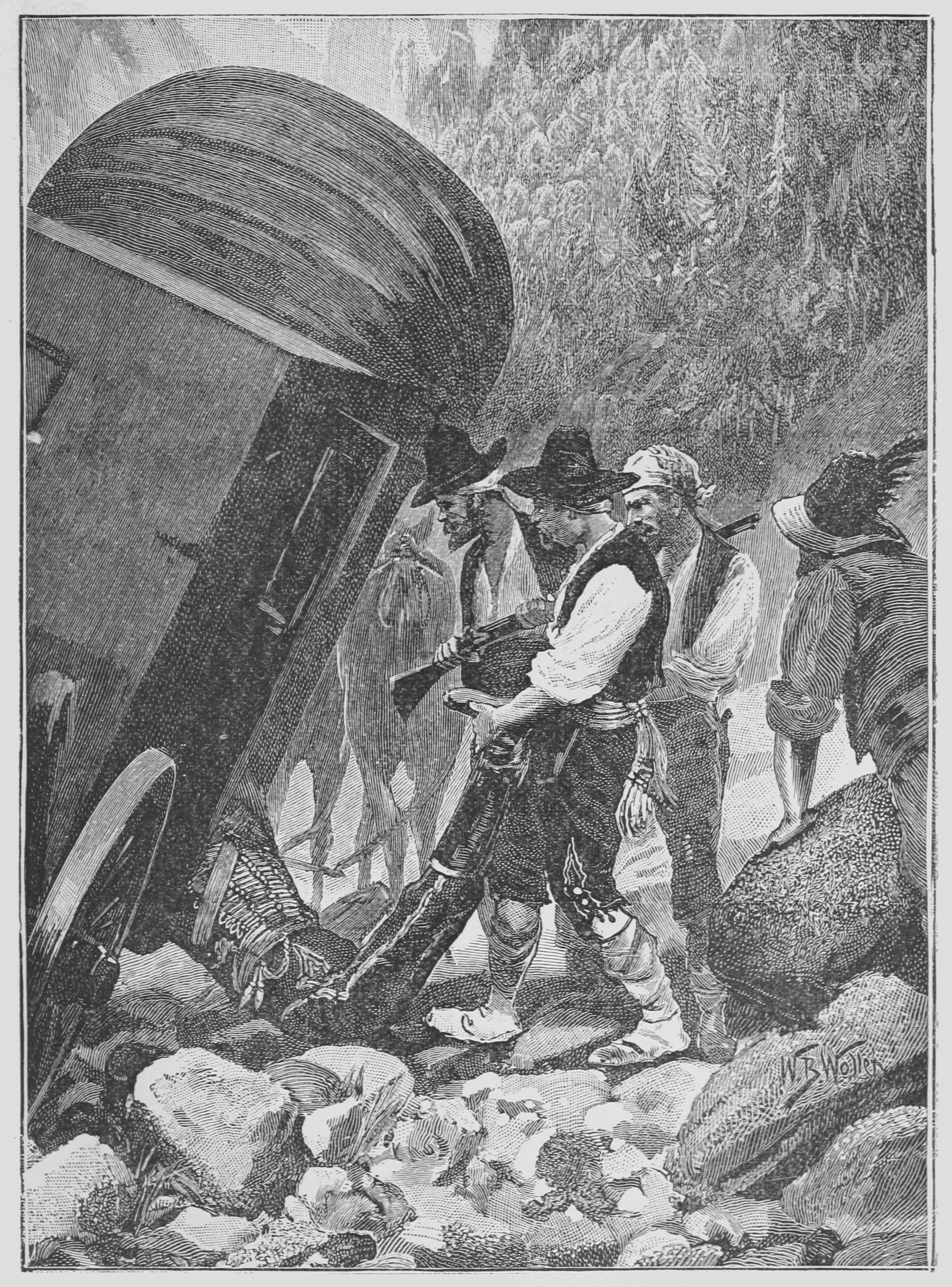 Plate of The Exploits of Brigadier Gerard